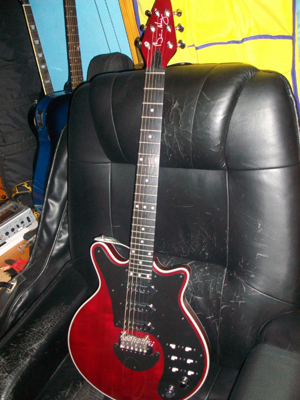 oh yeah!